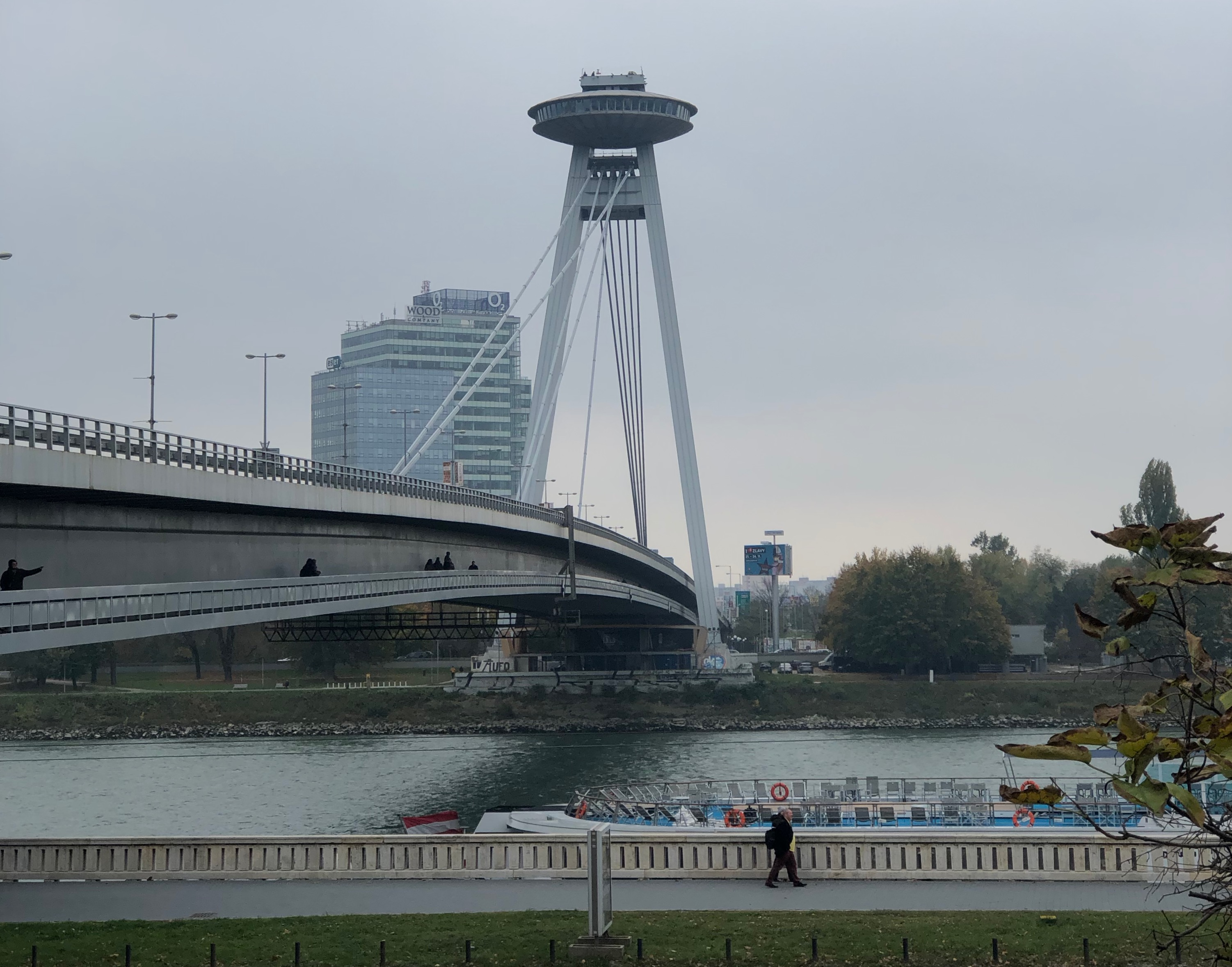 Nový most, Bratislava, Slovakia